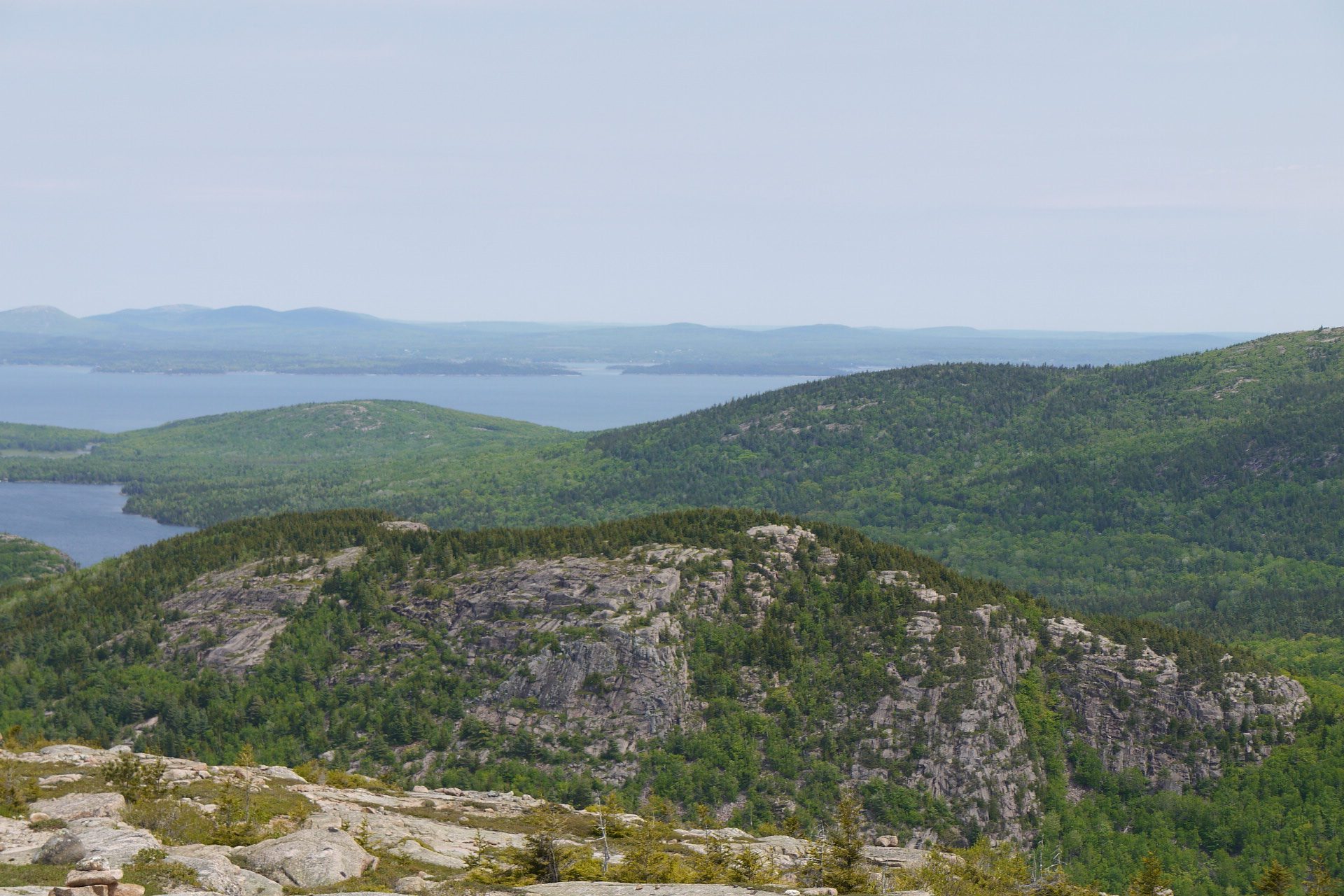 View from a mountain peak in Acadia National Park